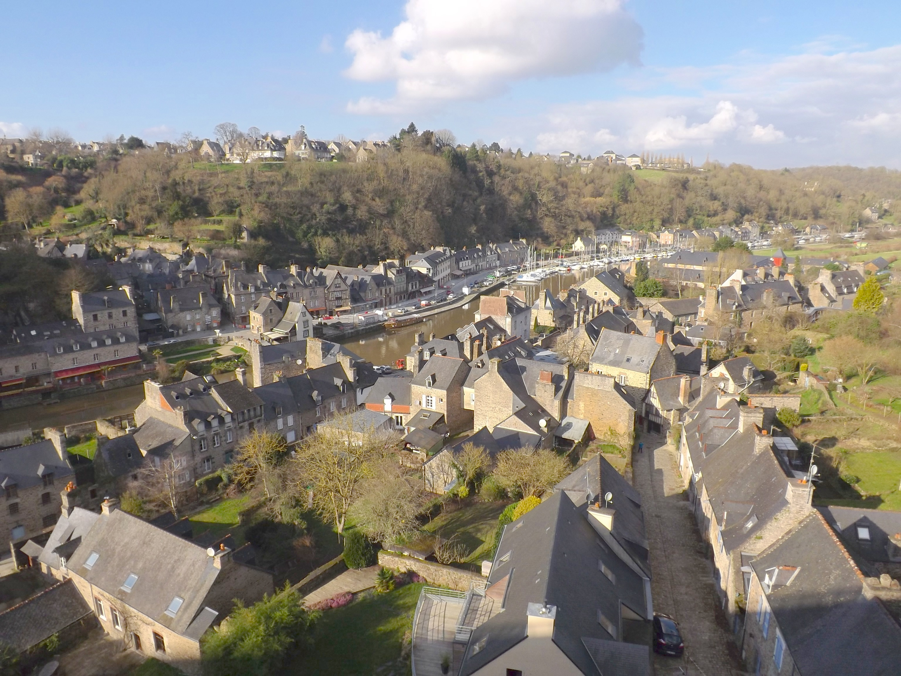 Panoramic view of Lanvallay (foreground) and Dinan (background) separated by the Rance river, in Côtes d'Armor, Brittany, France.